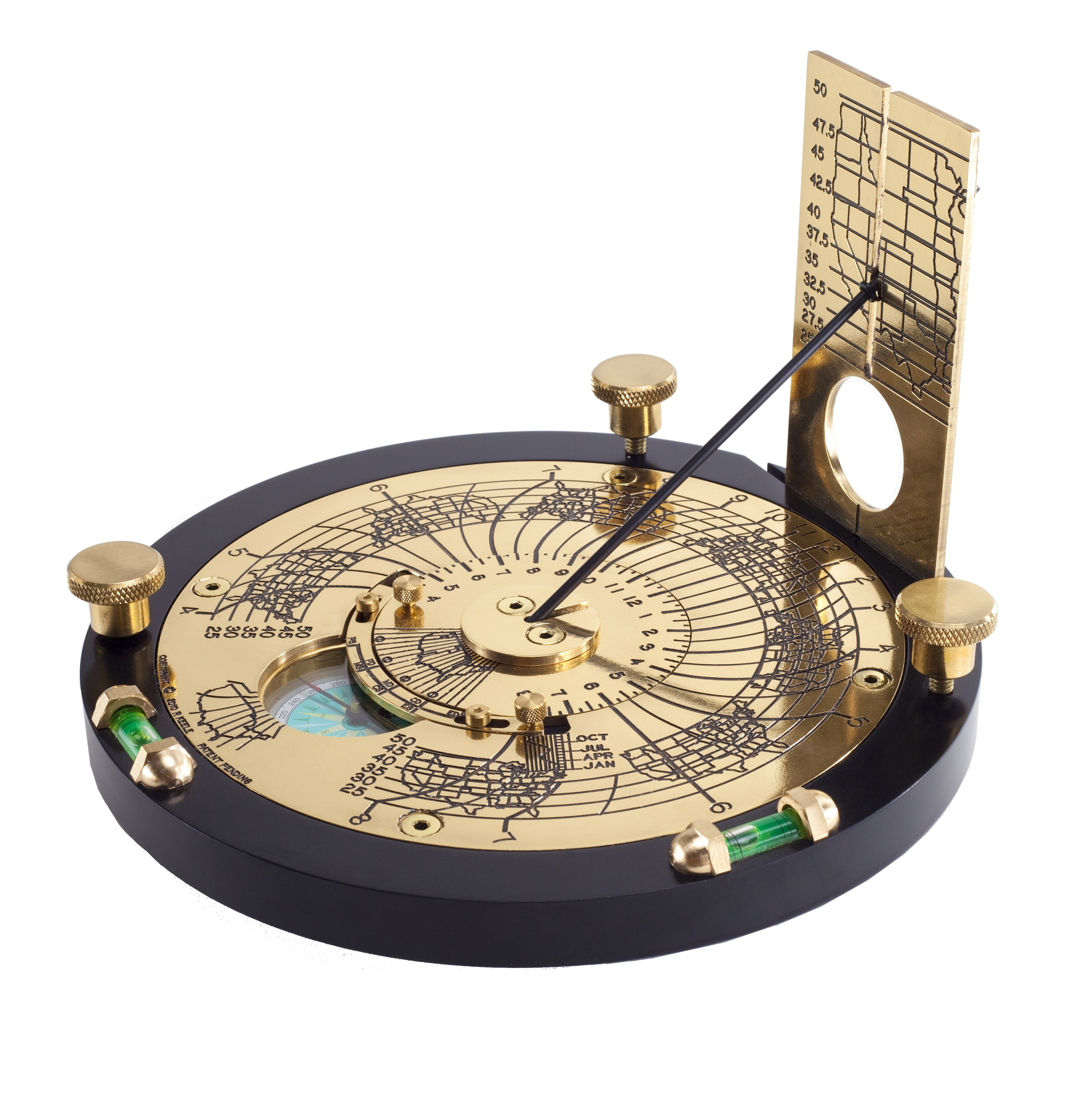 Engraved brass horizontal sundial corrects for latitude, time zone, daylight savings time, longitude, and equation of time; with magnetic declination correction and spirit levels.